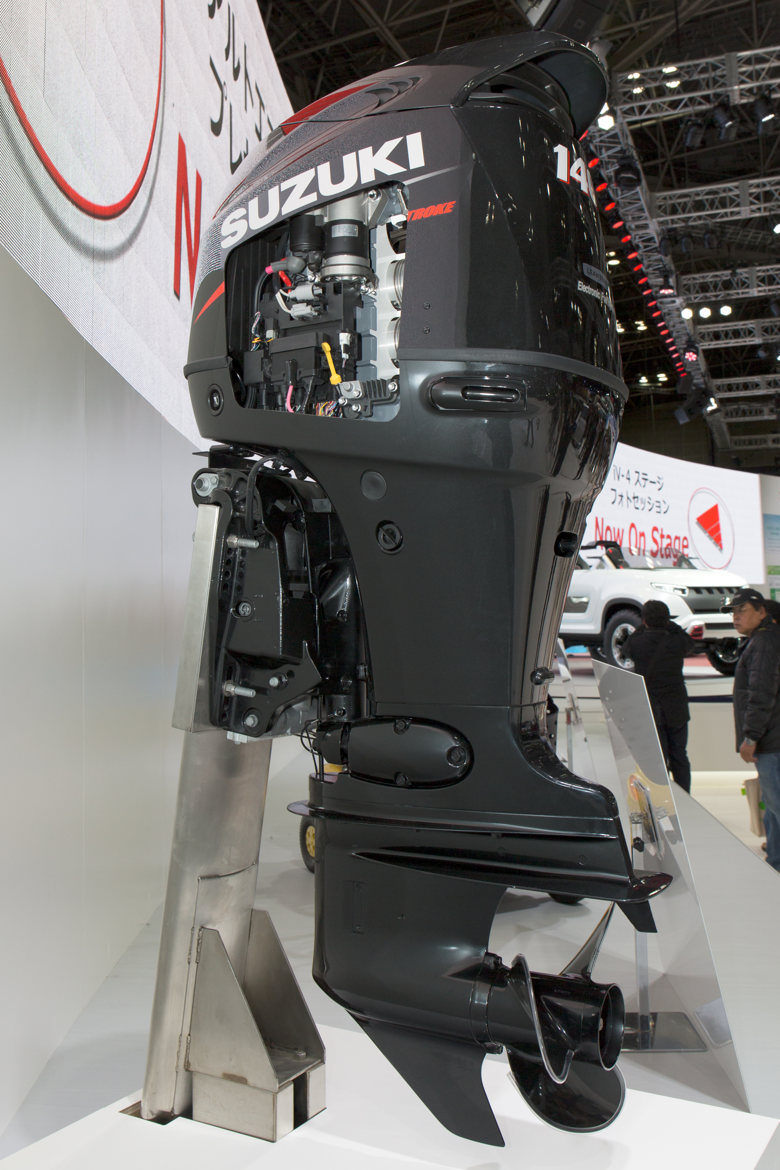 Tokyo Motor Show 2013: Suzuki DF140A outboard motor (Tokyo Big Sight, Koto, Tokyo, Japan).